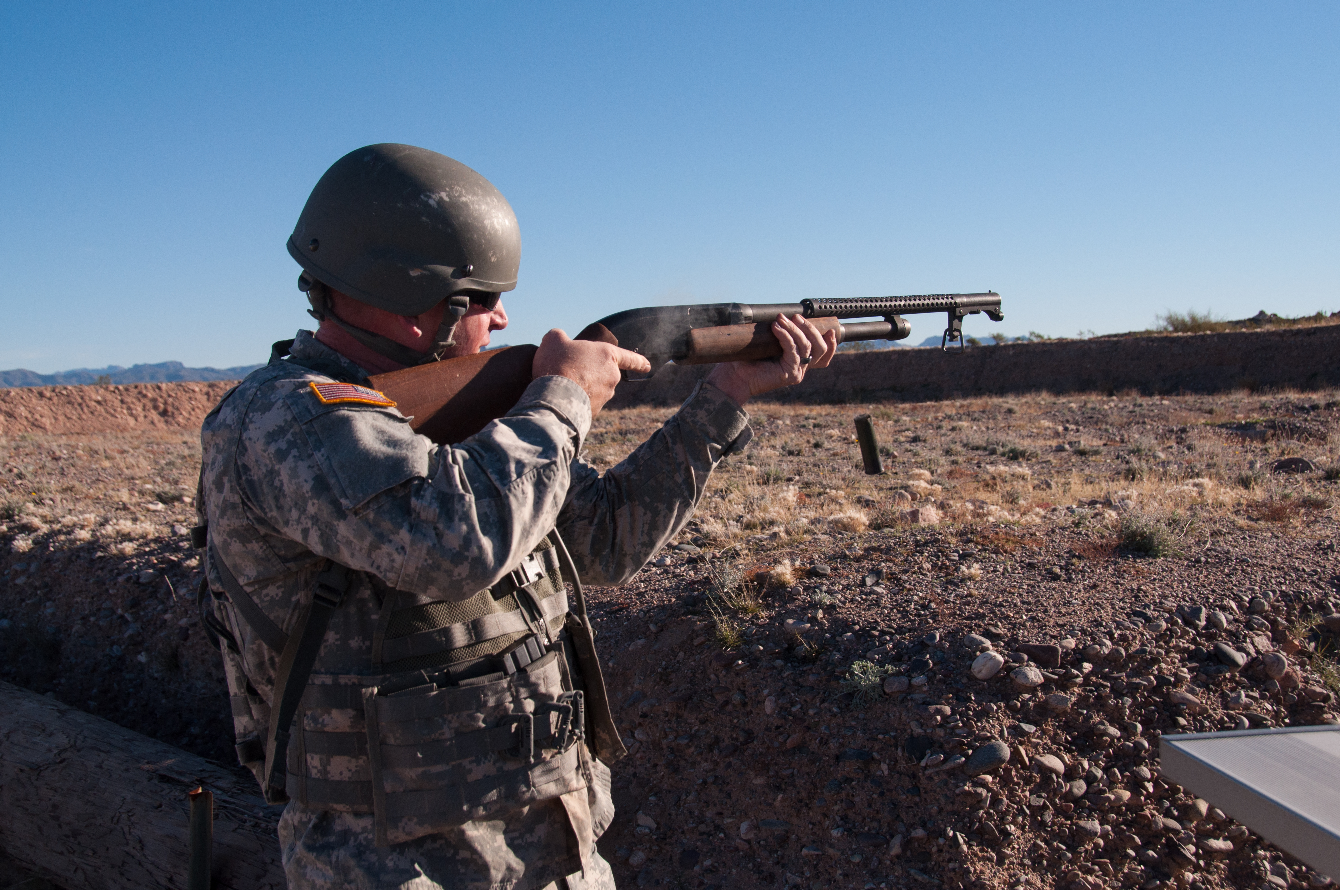 Sgt. 1st Class Morris Brook from the Arizona Army National Guard’s 215th Regional Training Institute, operates the Winchester 1200 Combat Shotgun during the 2015 Biathlon Shooting Competition at Florence Military Reservation Jan. 17. The event, hosted by the Arizona Army National Guard’s Small Arms Training Branch, included 18 teams from the Arizona Army and Air National Guard, Army Reserves, and Marine Reserves. (U.S. Army National Guard photo by Spc. Wes Parrell)